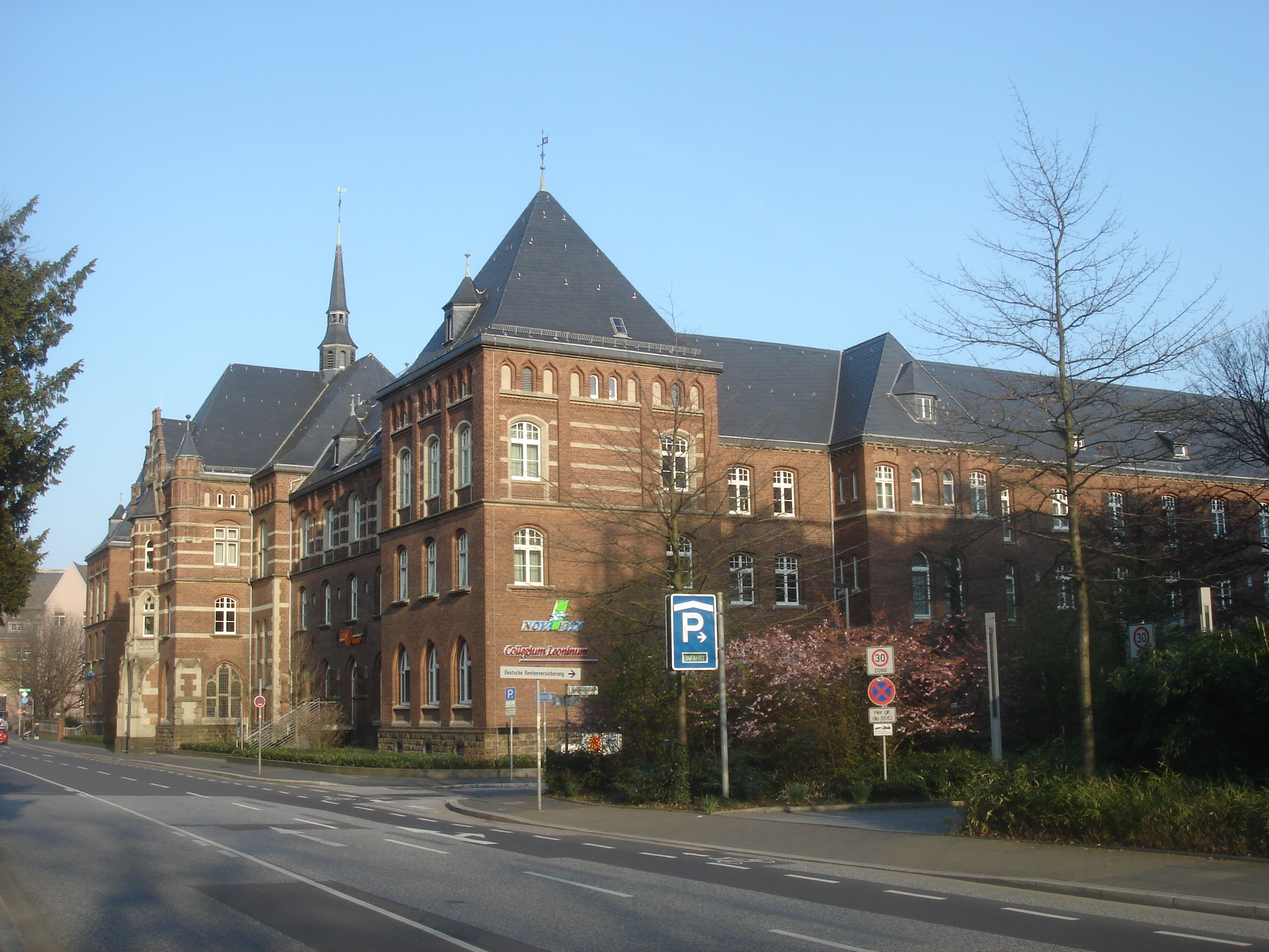 The Collegium Leoninum in Bonn, Germany, seen from the Alter Friedhof.